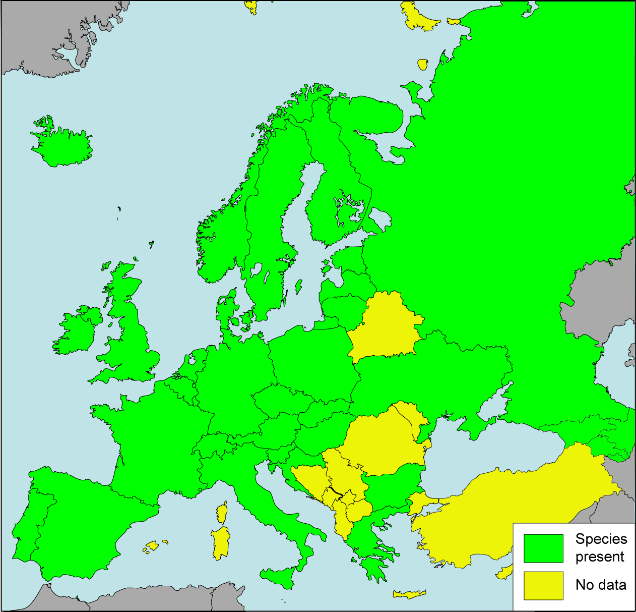 Pisidium amnicum, freshwater bivalve species: presence in European countries based upon data from: Pisidium amnicum